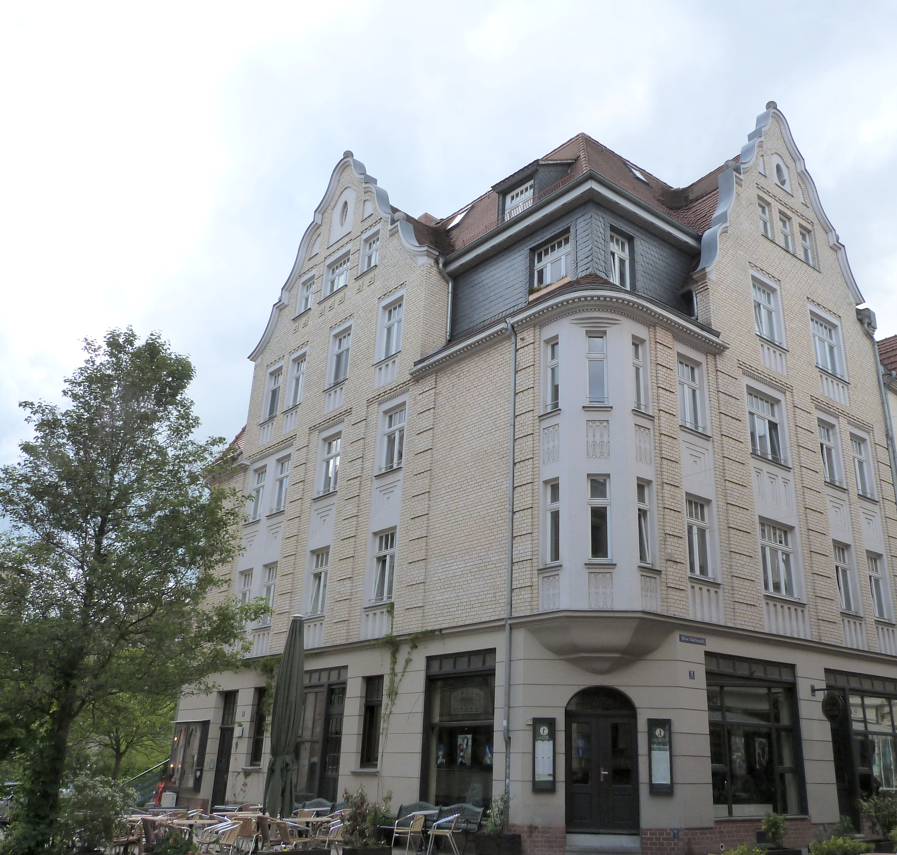 House No. 11, Kleine Ulrichstrasse, Halle (Saale)